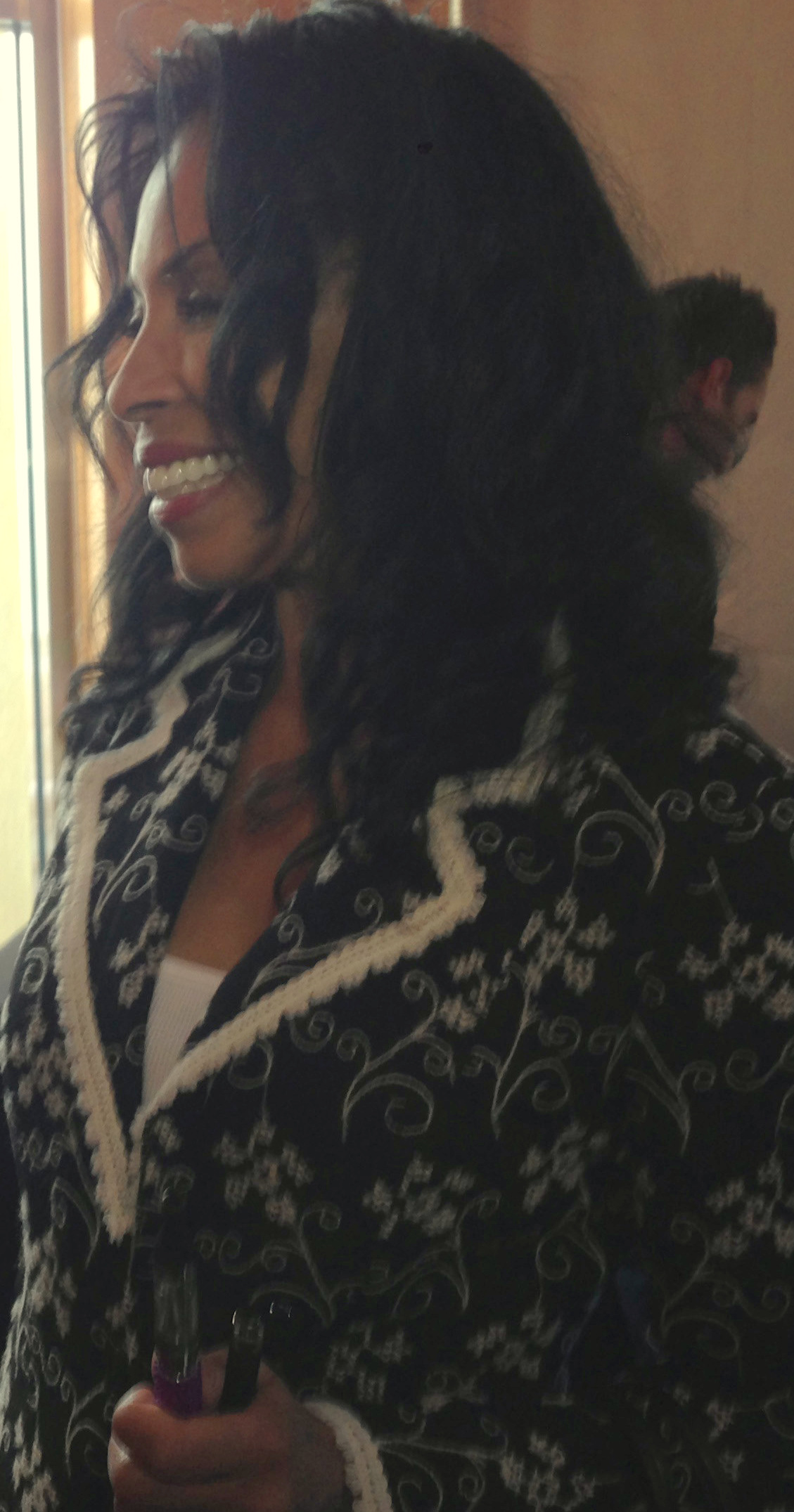 Khandi Alexander - Mingle Media TV's Red Carpet Report host Danielle Robay